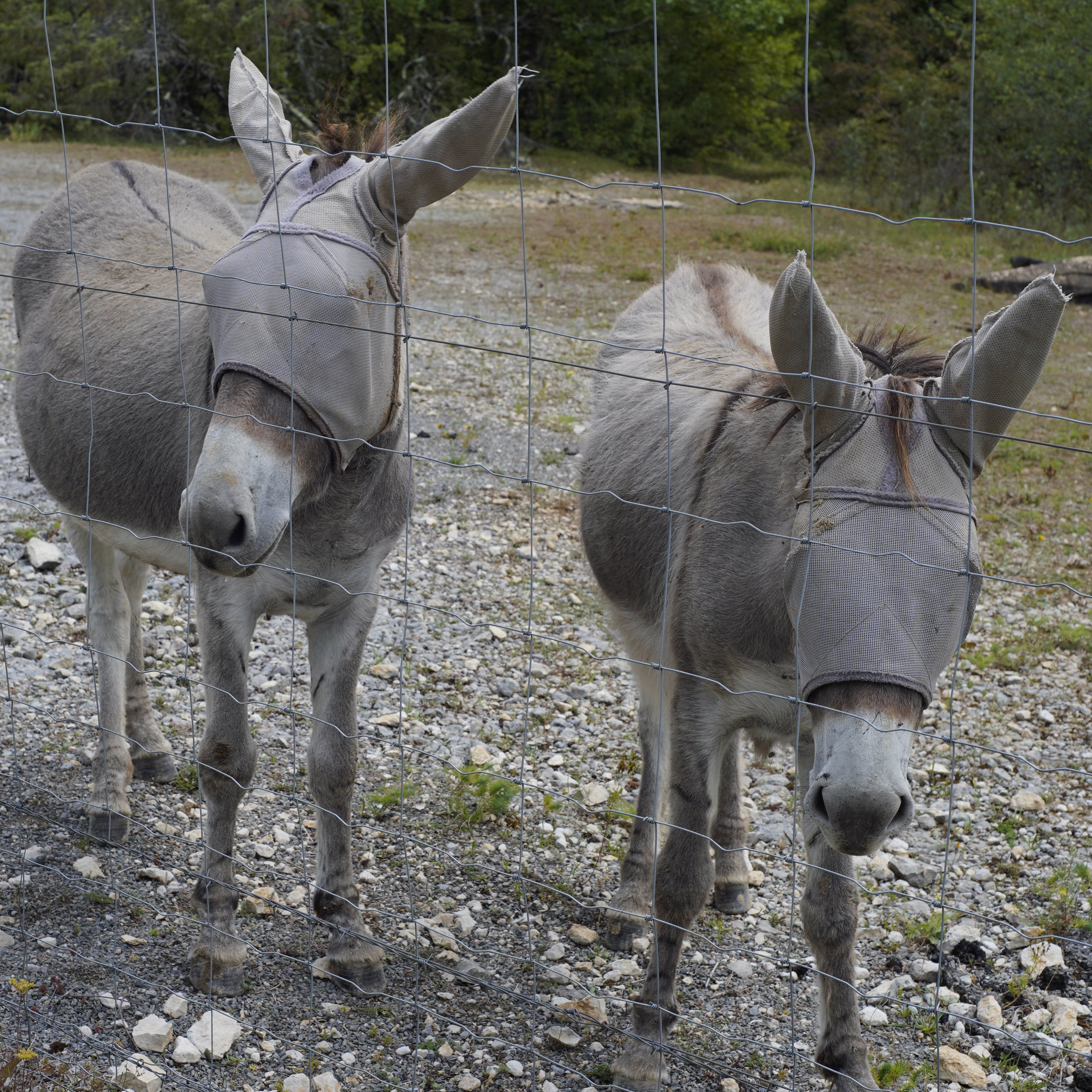 Donkeys wearing a fly mask (France)